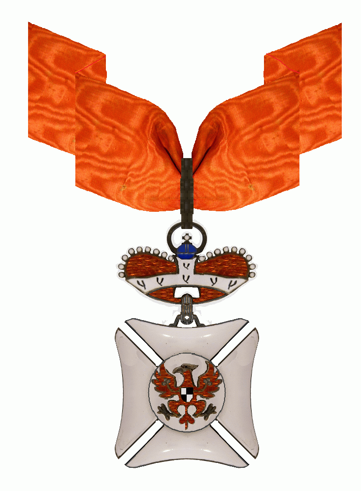 Order of the Matgrave of Bayreuth. Originally called Ordre de la Sincérité, later renamed the Order of the Brandenburg Red Eagle and later as the Order of the Red Eagle.